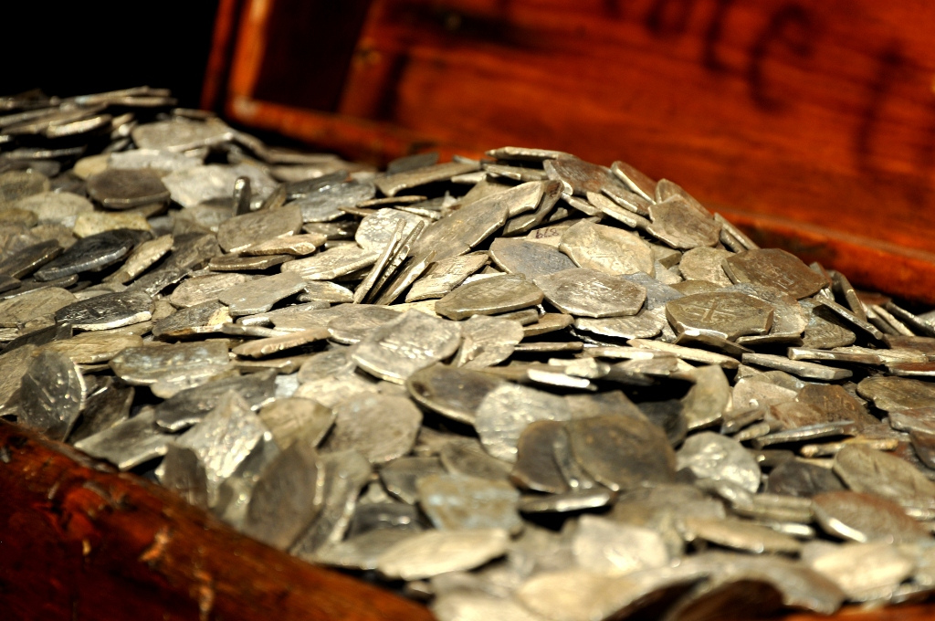 Real pirate treasure at the Houston Museum of Natural Science This is part of a special exhibit - "Real Pirates: The Untold Story of the Whydah Gally from Slave Ship to Pirate Ship" Captained by "Black Sam" Bellamy, the Whydah was laden with over 4.5 tons of gold, silver and precious treasure, the spoils from conquering 50 ships, when on April 26, 1717, she encountered a nor'easter off the coast of Cape Cod and wrecked on the shoals off Wellfleet, Massachusetts. Bellamy and all but two of his 145 crewmen were killed. This is just a sampling of the gold coins that have been recovered from the wreck by Barry Clifford, who discovered the wreck of the pirate ship in 1984; it was the first authenticated pirate ship ever to be discovered. For info about the exhibit